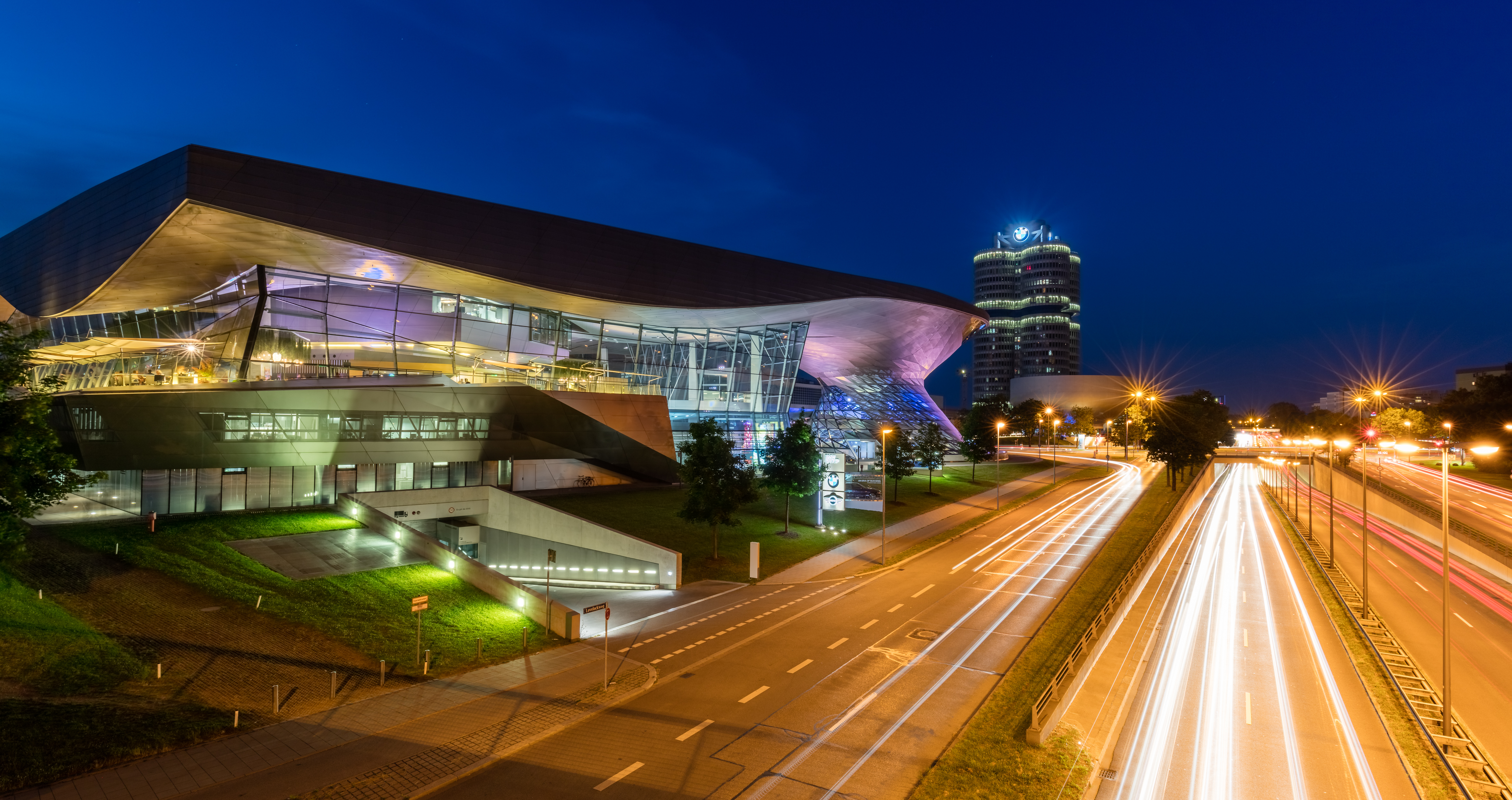 BMW Welt and BMW Tower, Munich, Germany